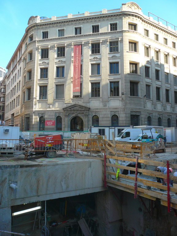 Balmes building of the Universitat Pompeu Fabra (now Barcelona School of Management) and works of Provença station of Barcelona metro.